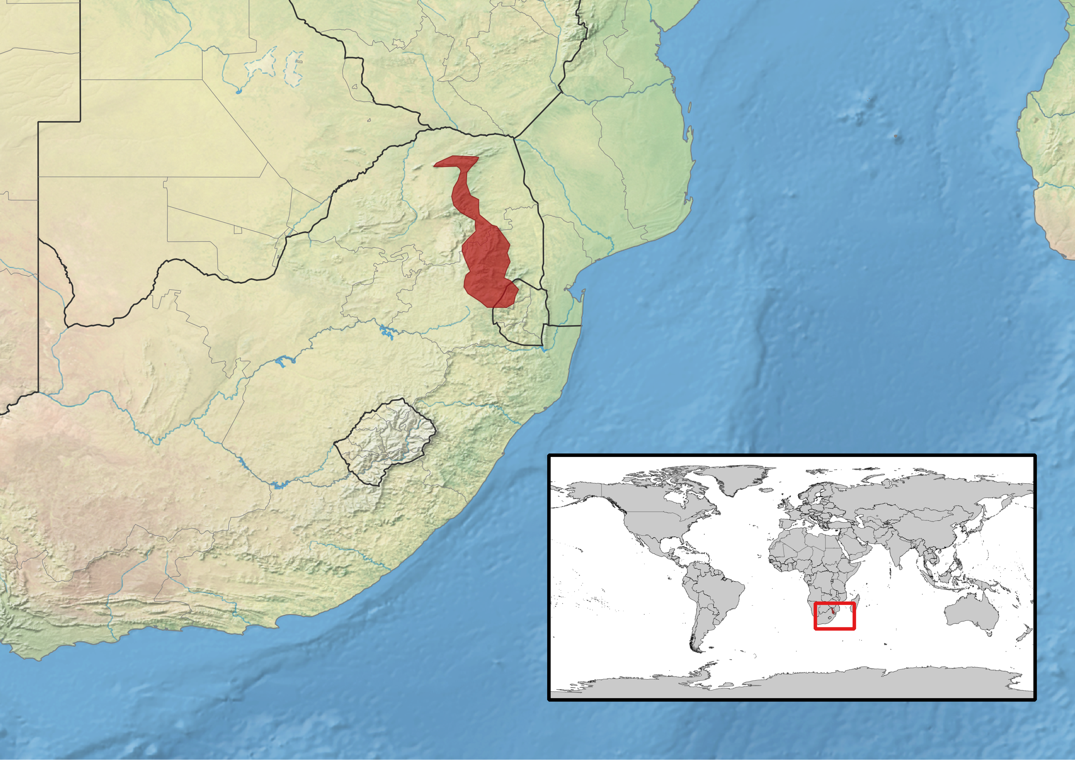 geographic distribution of Bradypodion transvaalense (Native: South Africa (Limpopo Province, Mpumalanga); Swaziland)